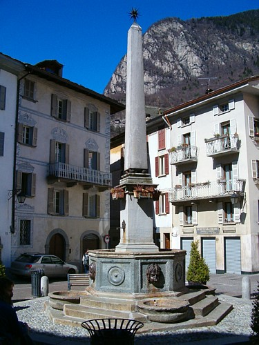 Central square of Chiavenna